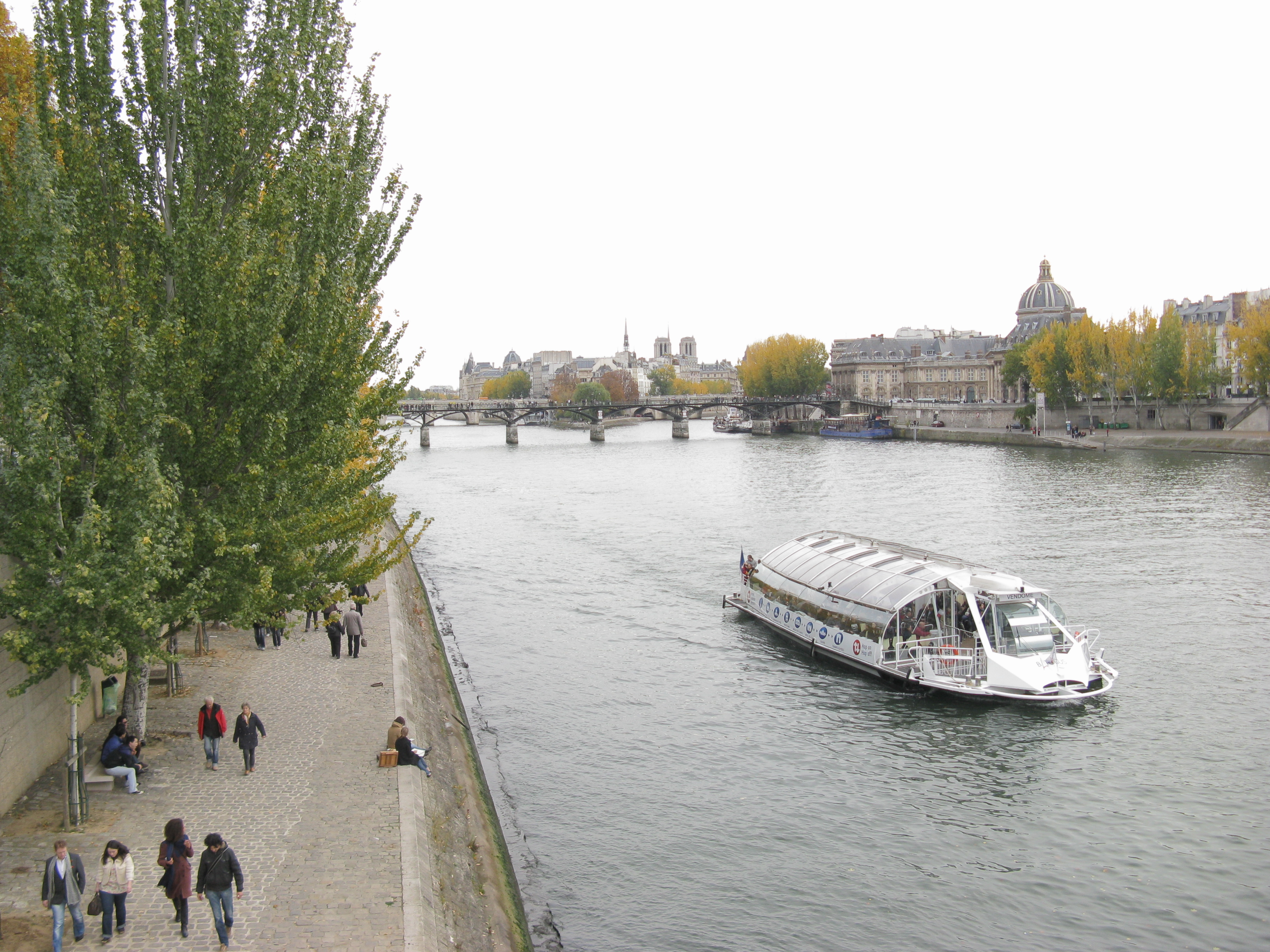 Seine river in Paris, France.